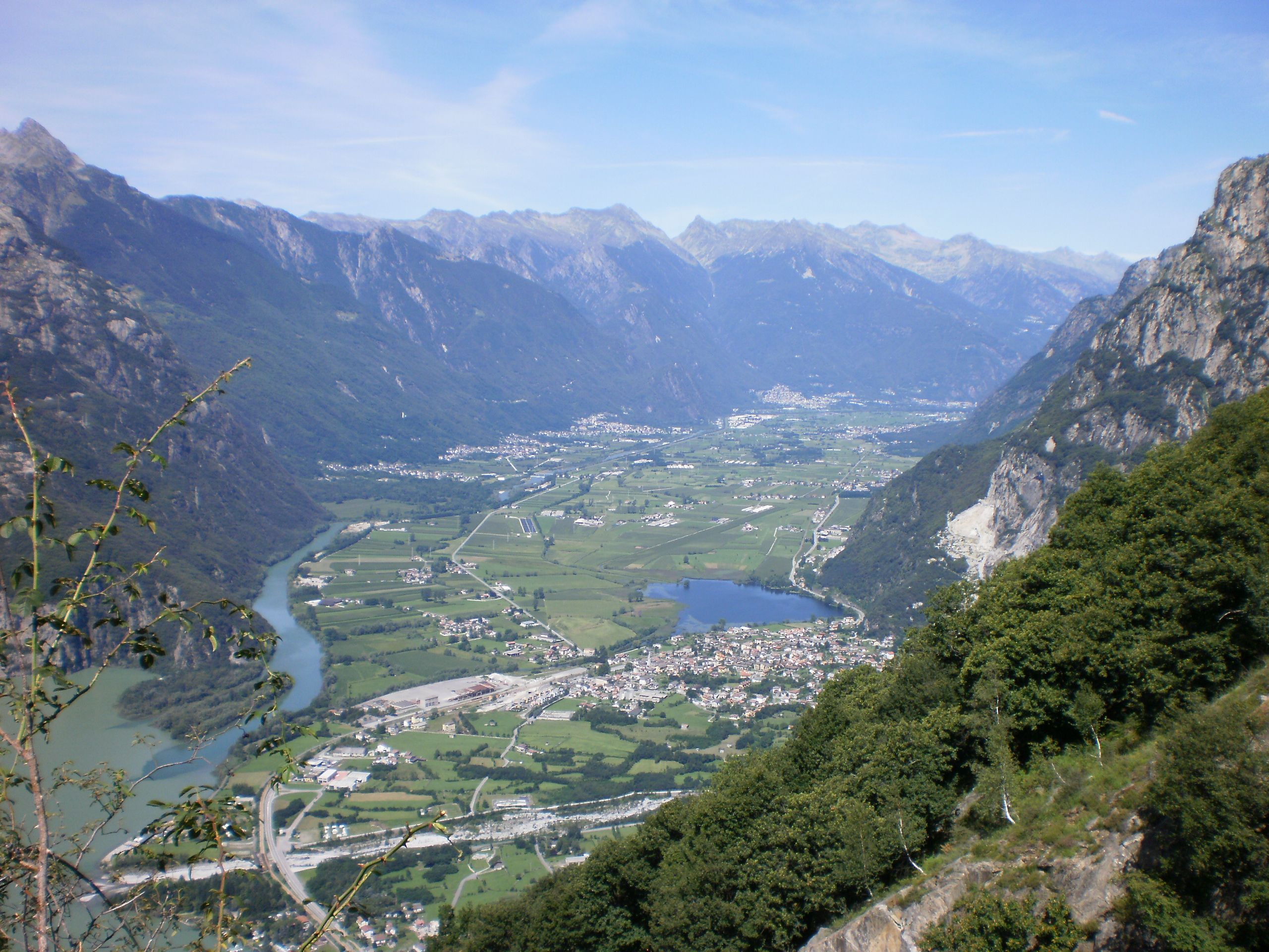 Valchiavenna